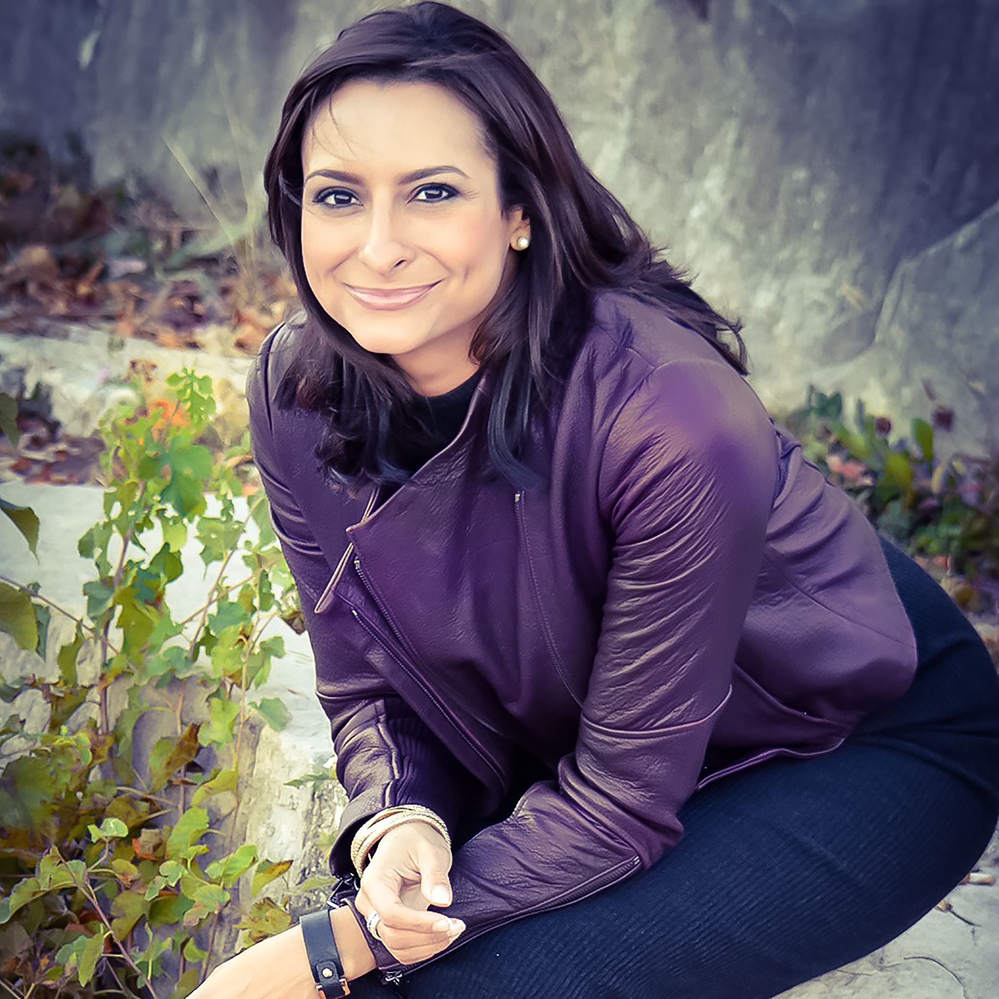 A 2015 photo of American television journalist Lourdes Duarte.